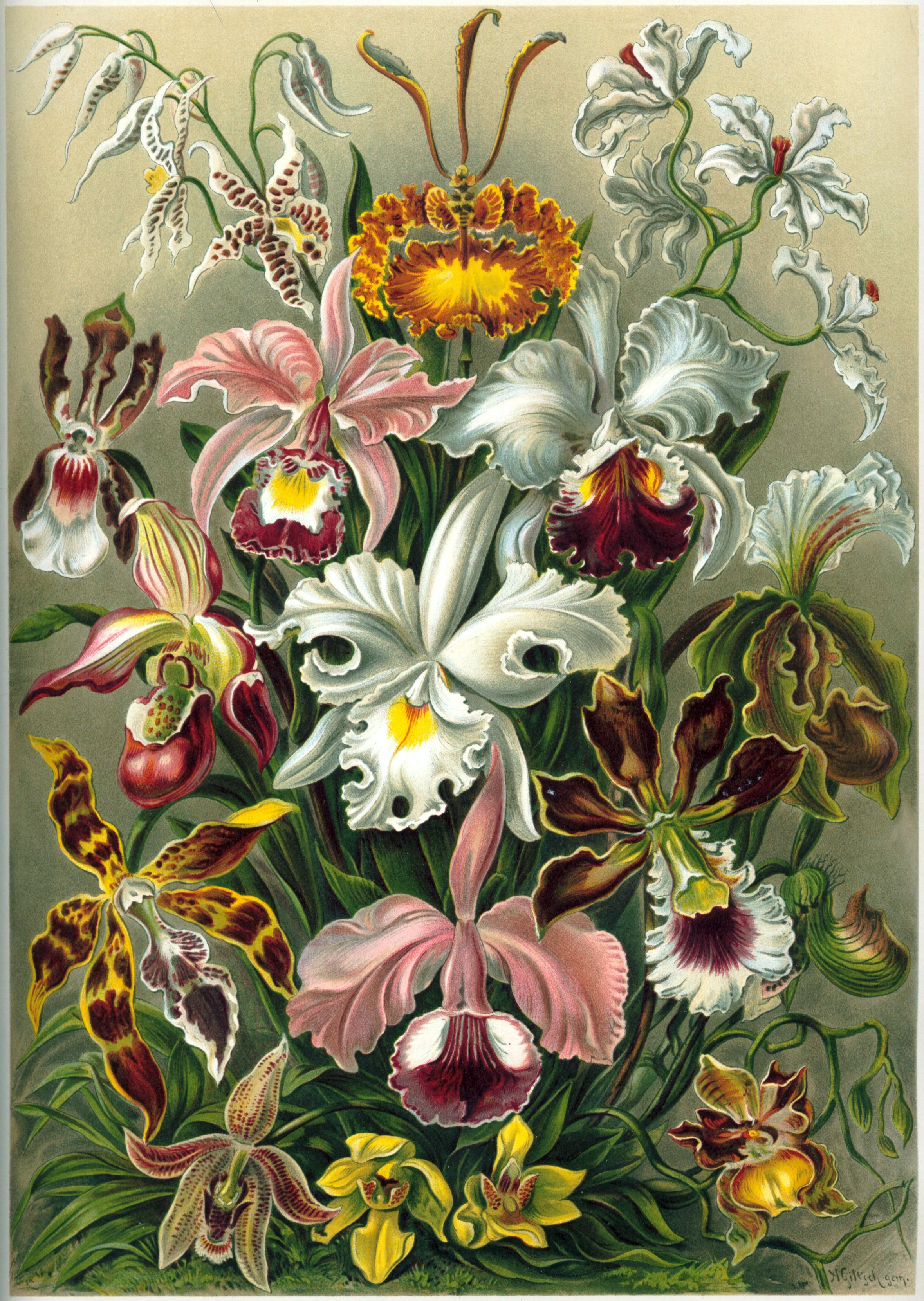 A lithographic color plate from Ernst Haeckel's Kunstformen der Natur of 1899 showing an artist's depiction of different varieties of orchids: Odontoglossum naevium = Odontoglossum naevium Lindl. Oncidium kramerianum = Psychopsis krameriana (Rchb.f.) H.G.Jones Odontoglossum ramosissimum = Cyrtochilum ramosissimum (Lindl.) Dalström Odontoglossum schroederianum = Oncidium schroederianum (O'Brien) Garay & Stacy Cattleya ballantiniana = Cattleya × ballantiniana Rchb.f. (C. trianae Linden & Rchb.f. × C. warscewiczii Rchb.f.) Cattleya mendellii = Cattleya mendelii Dombrain Cypripedium lemoinieri = Phragmipedium × sedenii (Rchb.f.) Rolfe (P. longifolium (Warsz. & Rchb.f.) Rolfe × P. schlimii (Linden ex Rchb.f.) Rolfe) Cattleya rochellensis = Cattleya warscewiczii Rchb.f. Cypripedium leeanum = Paphiopedilum insigne (Wall. ex Lindl.) Pfitzer × P. spicerianum (Rchb.f.) Pfitzer Odontoglossum wattianum = Oncidium × wattianum (Rolfe) J.M.H.Shaw, Orchid Rev. 121 (1304, Suppl.): 77. (2013) Cattleya labiata = Cattleya labiata Epidendrum atropurpureum = Encyclia cordigera (Kunth) Dressler (1964) Cypripedium argus = Paphiopedilum argus (Rchb.f.) Stein Paphinia rugosa = Paphinia rugosa Rchb.f. Zygopetalum xanthinum = Promenaea xanthina (Lindl.) Lindl. Oncidium laxense = Oncidium loxense Lindl. / Cyrtochilum loxense (Lindl.) Kraenzl.